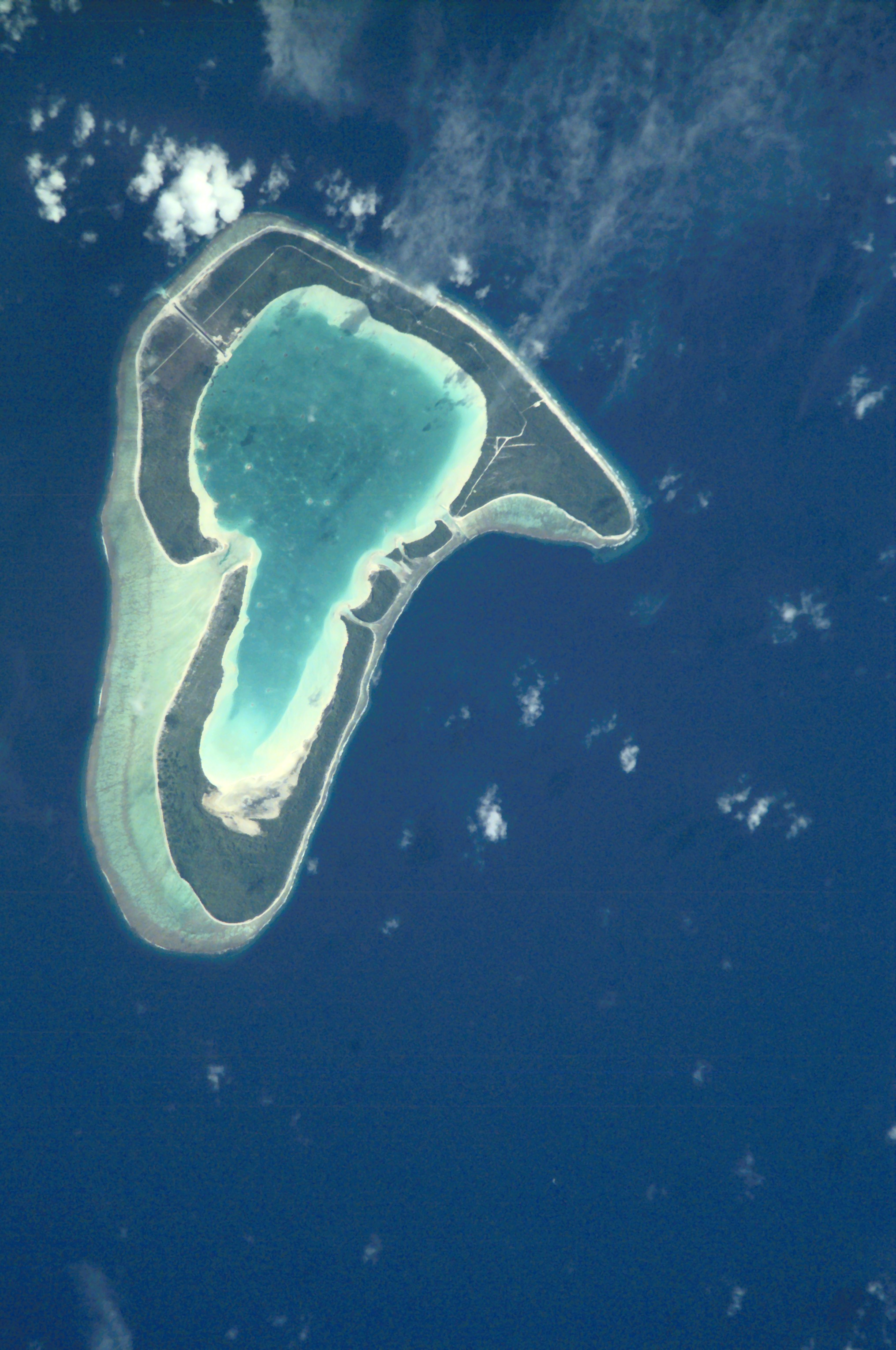 NASA Astronaut Image of Tupai (Society Islands, French Polynesia) in the Pacific Ocean